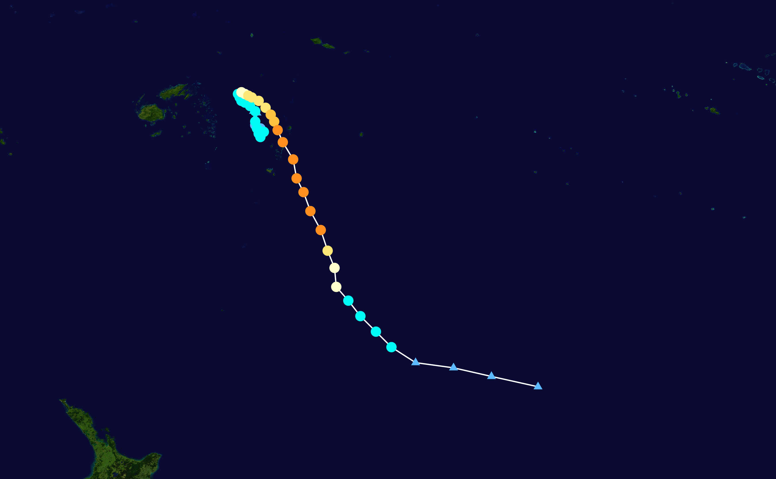 Track map of Severe Tropical Cyclone Ian of the 2013-14 South Pacific cyclone season. The points show the location of the storm at 6-hour intervals. The colour represents the storm's maximum sustained wind speeds as classified in the Saffir–Simpson scale (see below), and the shape of the data points represent the nature of the storm, according to the legend below. Saffir–Simpson scale Tropical depression≤38 mph≤62 km/h Category 3111–129 mph178–208 km/h Tropical storm39–73 mph63–118 km/h Category 4130–156 mph209–251 km/h Category 174–95 mph119–153 km/h Category 5≥157 mph≥252 km/h Category 296–110 mph154–177 km/h Unknown Storm type Tropical cyclone Subtropical cyclone Extratropical cyclone / Remnant low / Tropical disturbance / Monsoon depression